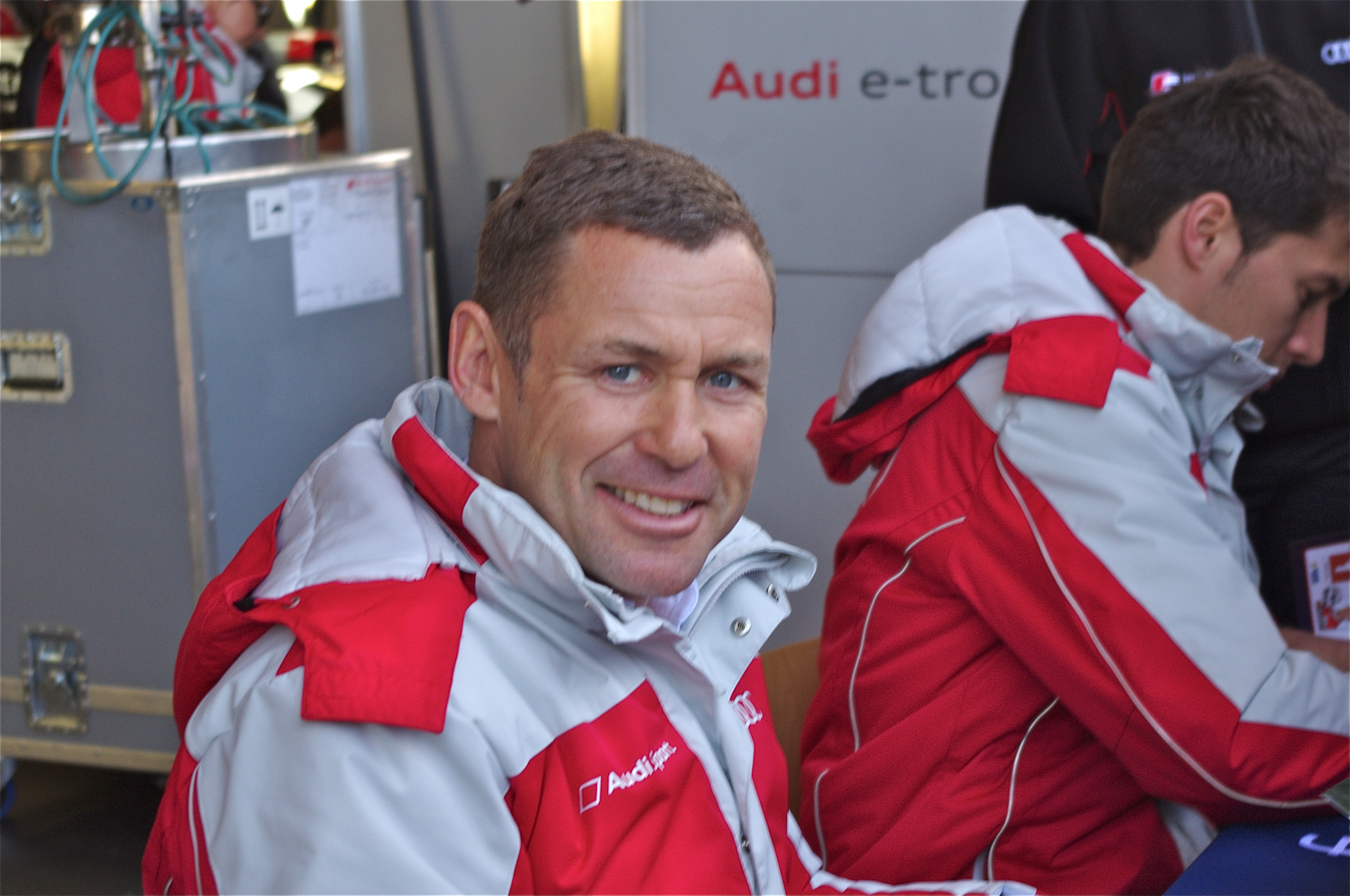 WEC Silverstone 6 Hours 2013: Tom Kristensen (Audi Sport Team Joest)